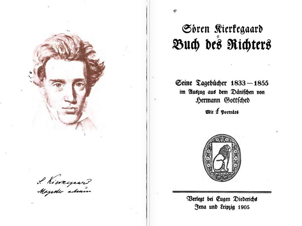 The Journals of Soren Kierkegaard (Buch des Richters: Seine Tagebücher 1833-1855) was published in 1905. This is the title page. Hermann Gottsched was the translater